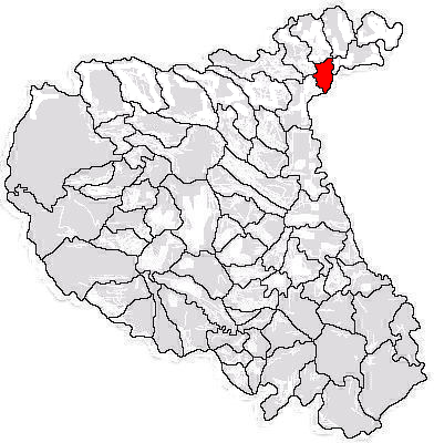 Map of limits of commune in Vrancea County